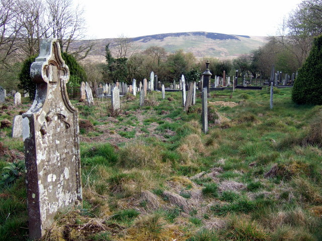 Chapel burial ground Brynberian independent chapel was first established in 1690 but none of the gravestones here record a date earlier that C19. The backdrop of hills makes for a wonderful setting while the tumps and hummocks housing ants' nests indicate that the ground has been undisturbed for many generations.